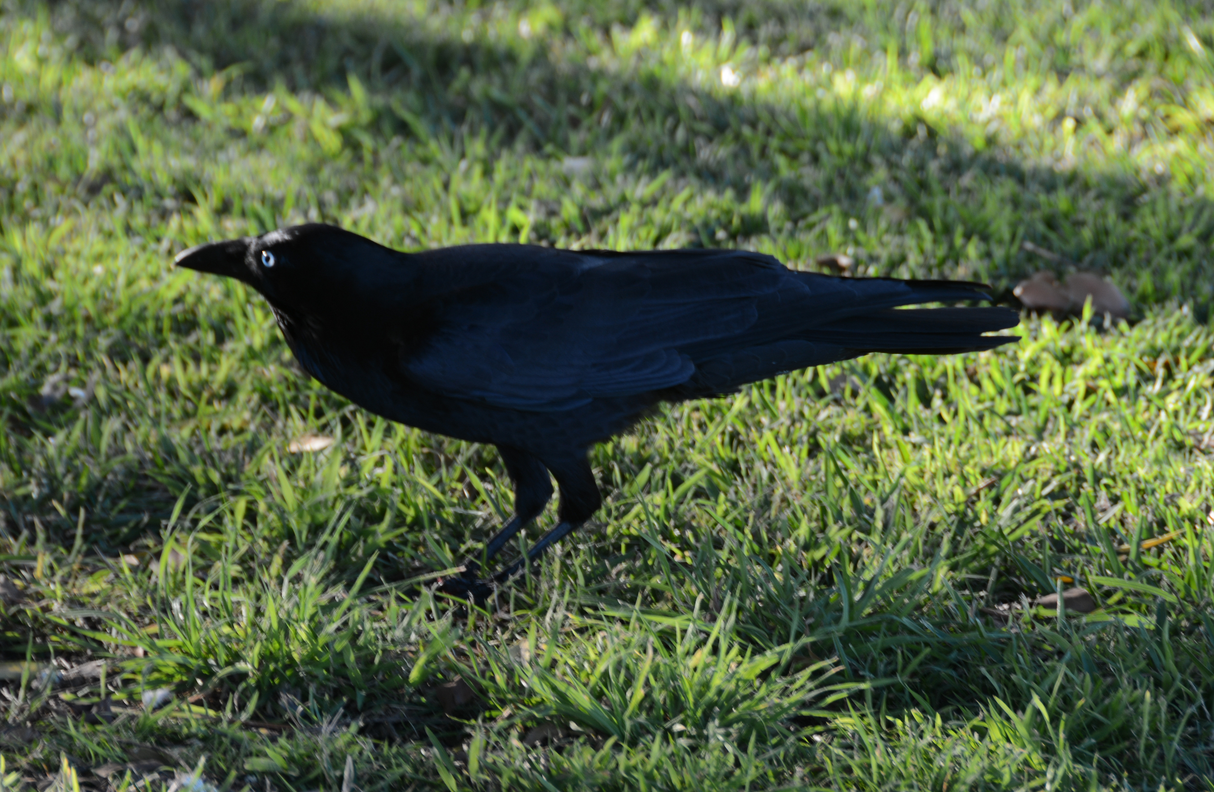 Crow, Kensington Park, Kensington, Sydney